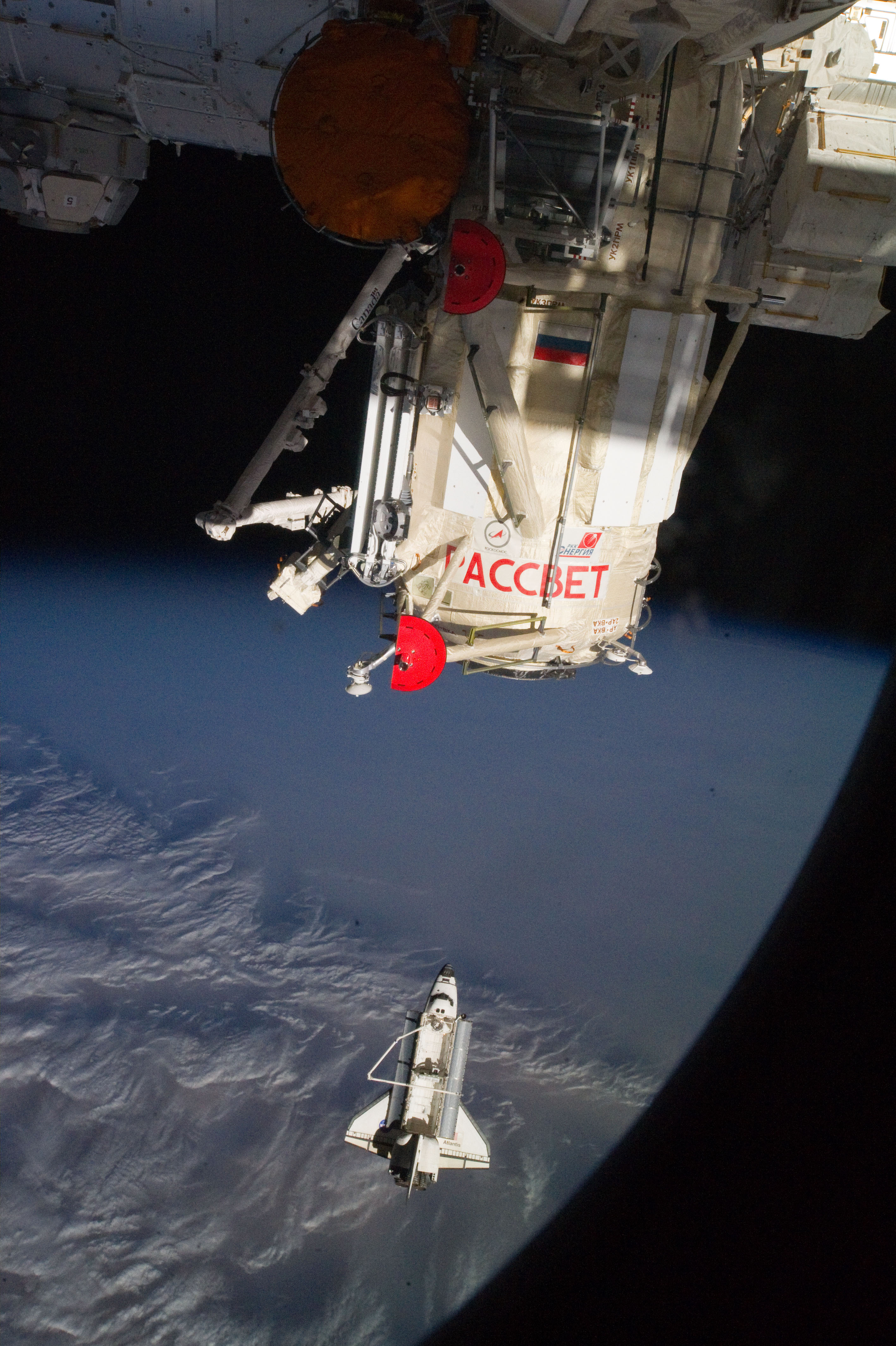 Space shuttle Atlantis and the newly-attached Rassvet Mini-Research Module 1 (MRM1) are featured in this image photographed by an Expedition 23 crew member on the International Space Station soon after the shuttle and station began their post-undocking relative separation. Undocking of the two spacecraft occurred at 10:22 a.m. (CDT) on May 23, 2010, ending a seven-day stay that saw the addition of a new station module, replacement of batteries and resupply of the orbiting outpost.